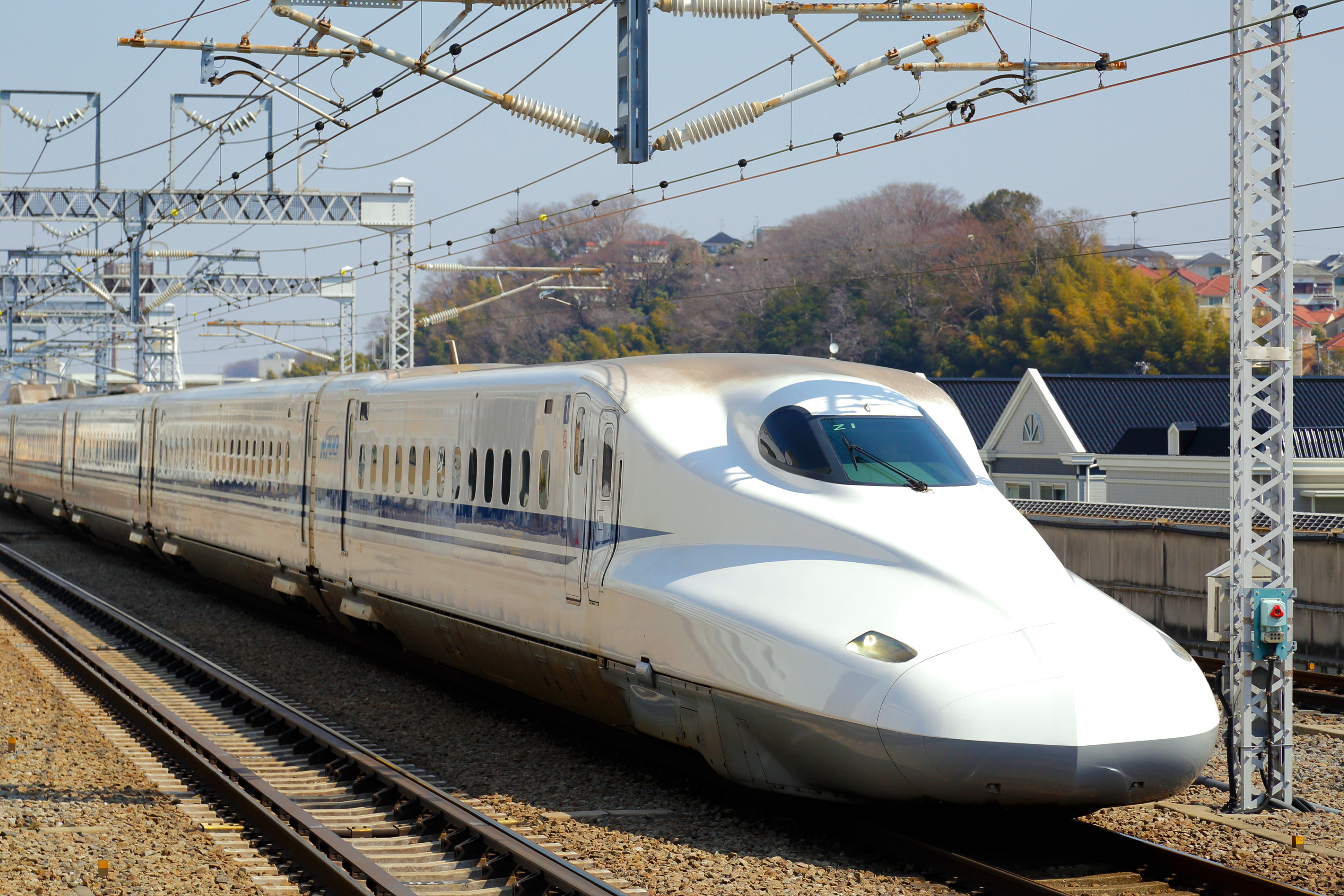 JR Central N700 series shinkansen set Z1 approaching Shin-Yokohama Station